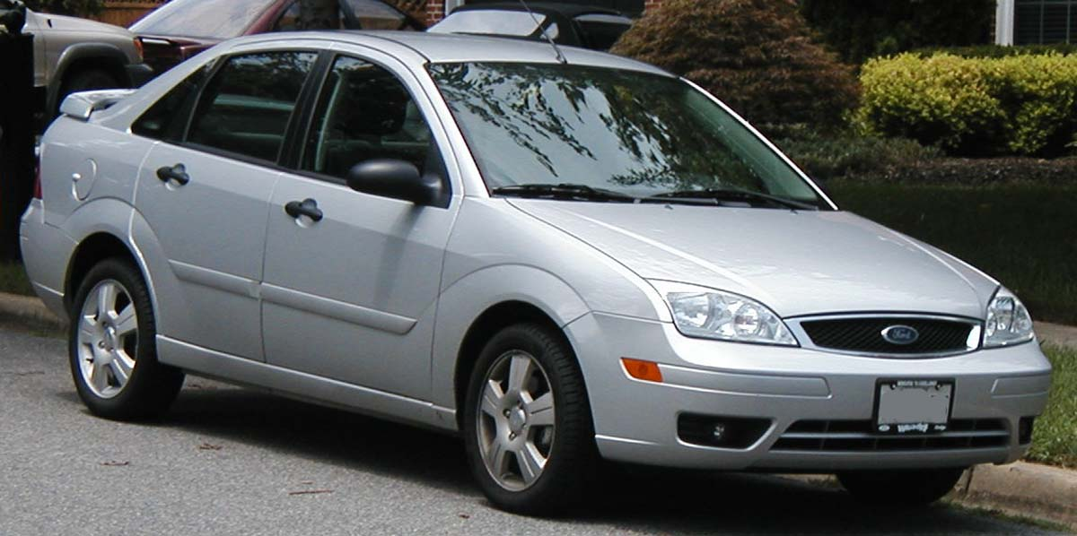 2005-2007 Ford Focus ZX4 photographed in USA.